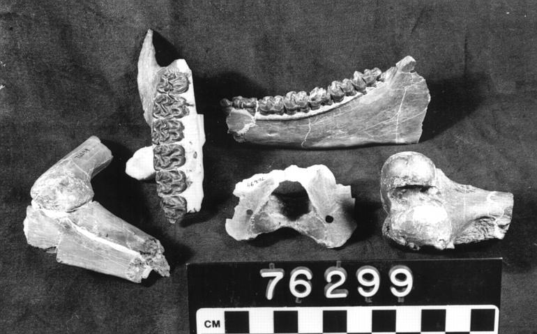 Miohippus fossils, University of California Museum of Paleontology.